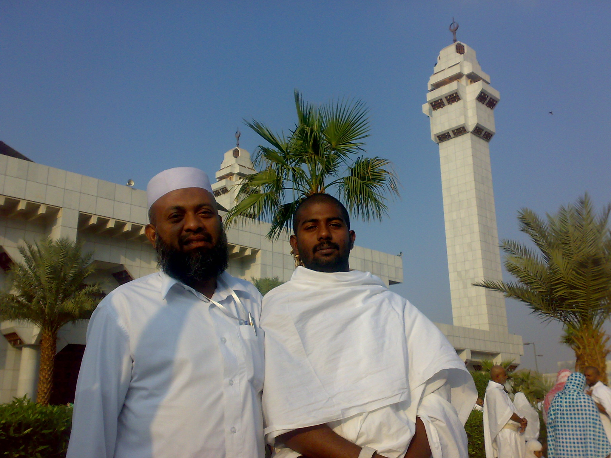 A picture of a man in Ehraam.